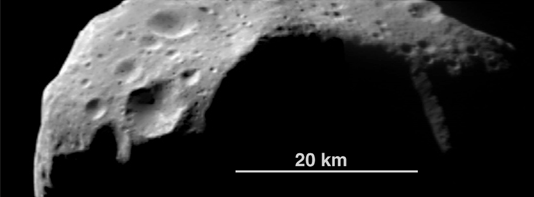 This is a view of 253 Mathilde taken by the NEAR spacecraft from a distance of 1,200 km. The black border has been cropped from the original view.